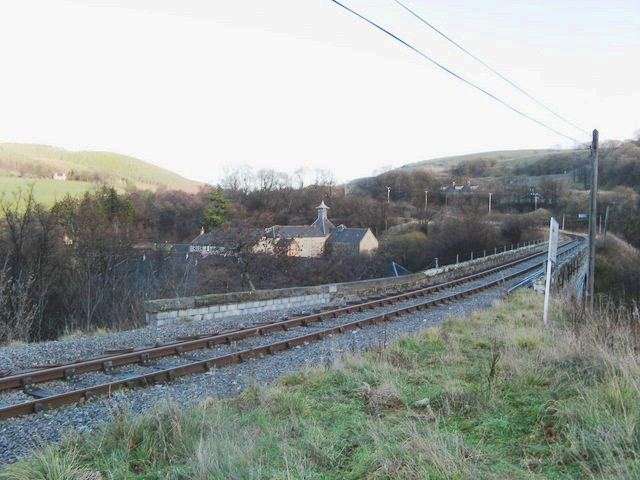 Parkmore Distillery, Dufftown. The disused Parkmore Distillery, with the Fiddich Viaduct carrying the restored Keith to Dufftown Railway.